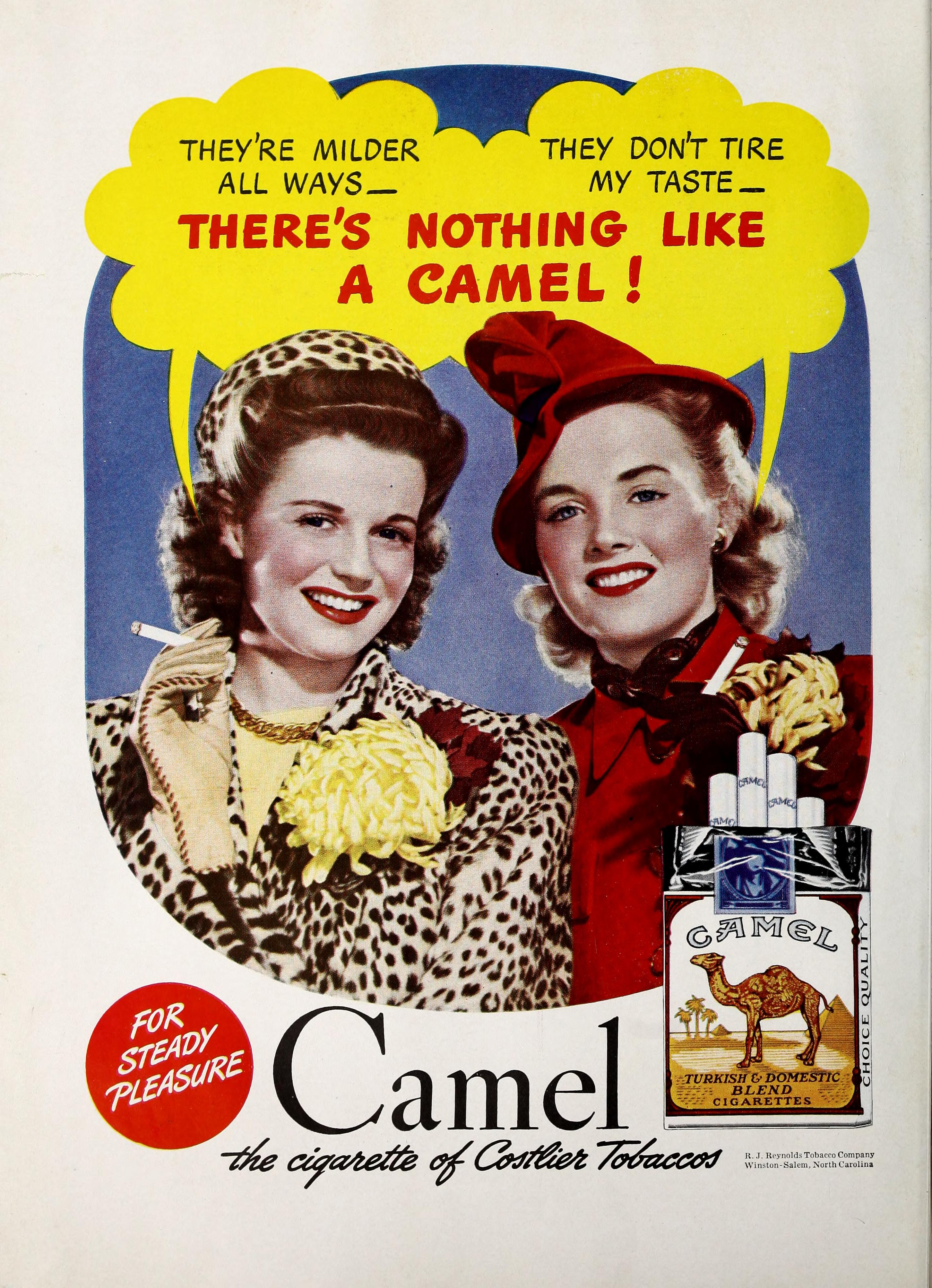 There's nothing like a Camel, 1942 Title: Carolina magazine (serial) Year: 1921 (1920s) Authors: University of North Carolina (1793-1962). Dialectic Society University of North Carolina (1793-1962). Philanthropic Society Subjects: University of North Carolina at Chapel Hill Publisher: Chapel Hill, N.C. : Dialectic and Philanthropic Literary Societies of the University of North Carolina Text Appearing Before Image: ' Text Appearing After Image: CAROLINAMAGAZINE For OCTOBER, 1942 Issues Propaganda is propaganda but wehave a new tack. Recently having seenWake Island, a picture shot with goreand dastardly enemy deeds, we felt asudden urge to retire deep into theOkeefeenokee Swamp with a .22 andfishing rod and a jug of stumphole.Death by shellfire seemed the deadliestdeath of all. Out of the theater, we re-membered as we tore the paper from atinfoilless pack of cigarettes. We re-membered the family buggy resting onits axles; we remembered a bus thattraveled at forty miles an hour; we re-membered cokes that taste like an in-dian should have done a dance as youpurchased them; we remembered thebitter reality of phys ed four times aweek; we remembered an obstaclecarolinamagazine1942univ